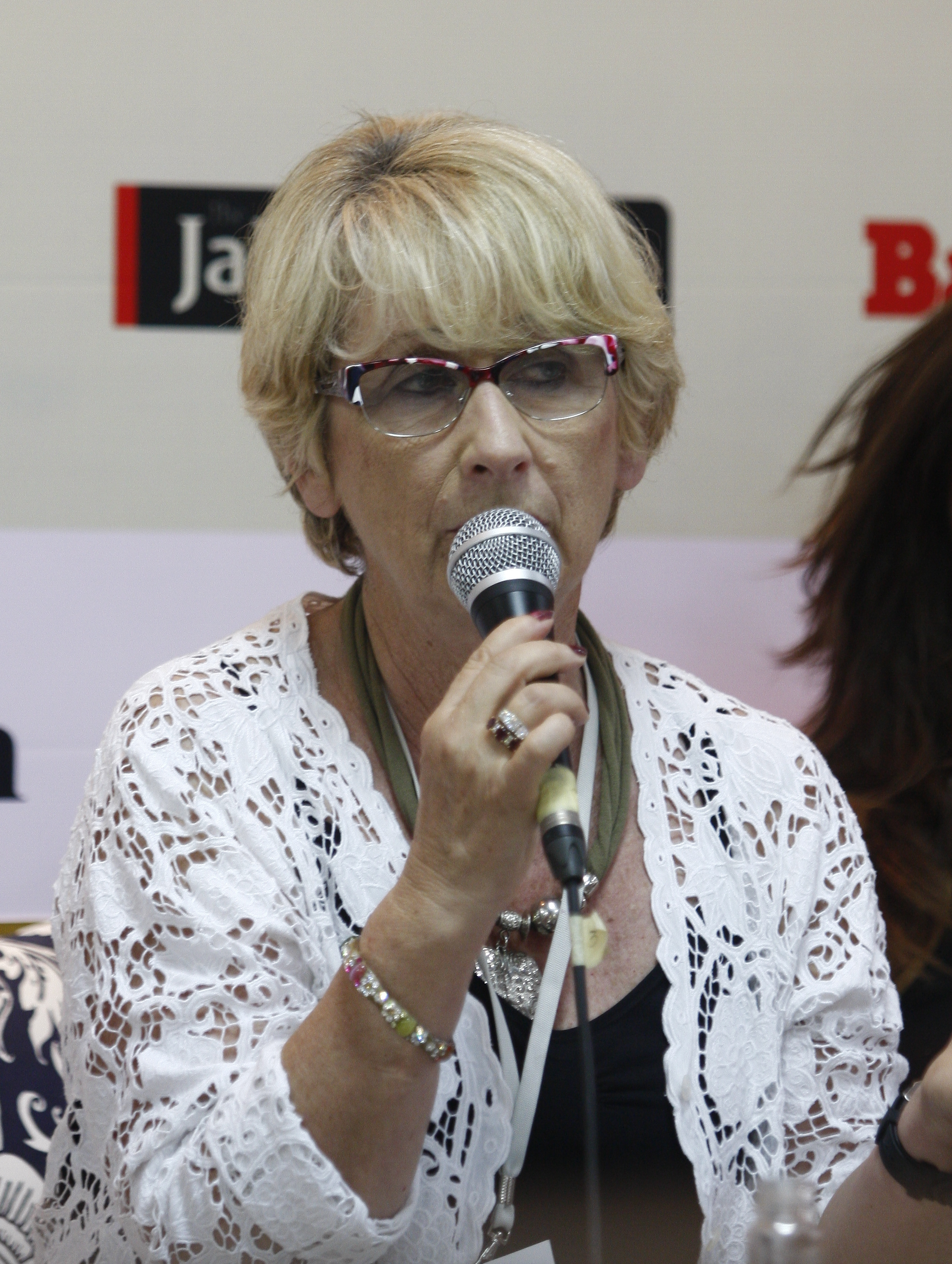 Ubud Writers & Readers Festival 2012. Image credit Stanny Angga.